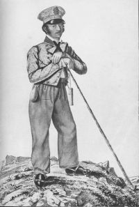 Drawing of the first ascender of the Zugspitze.